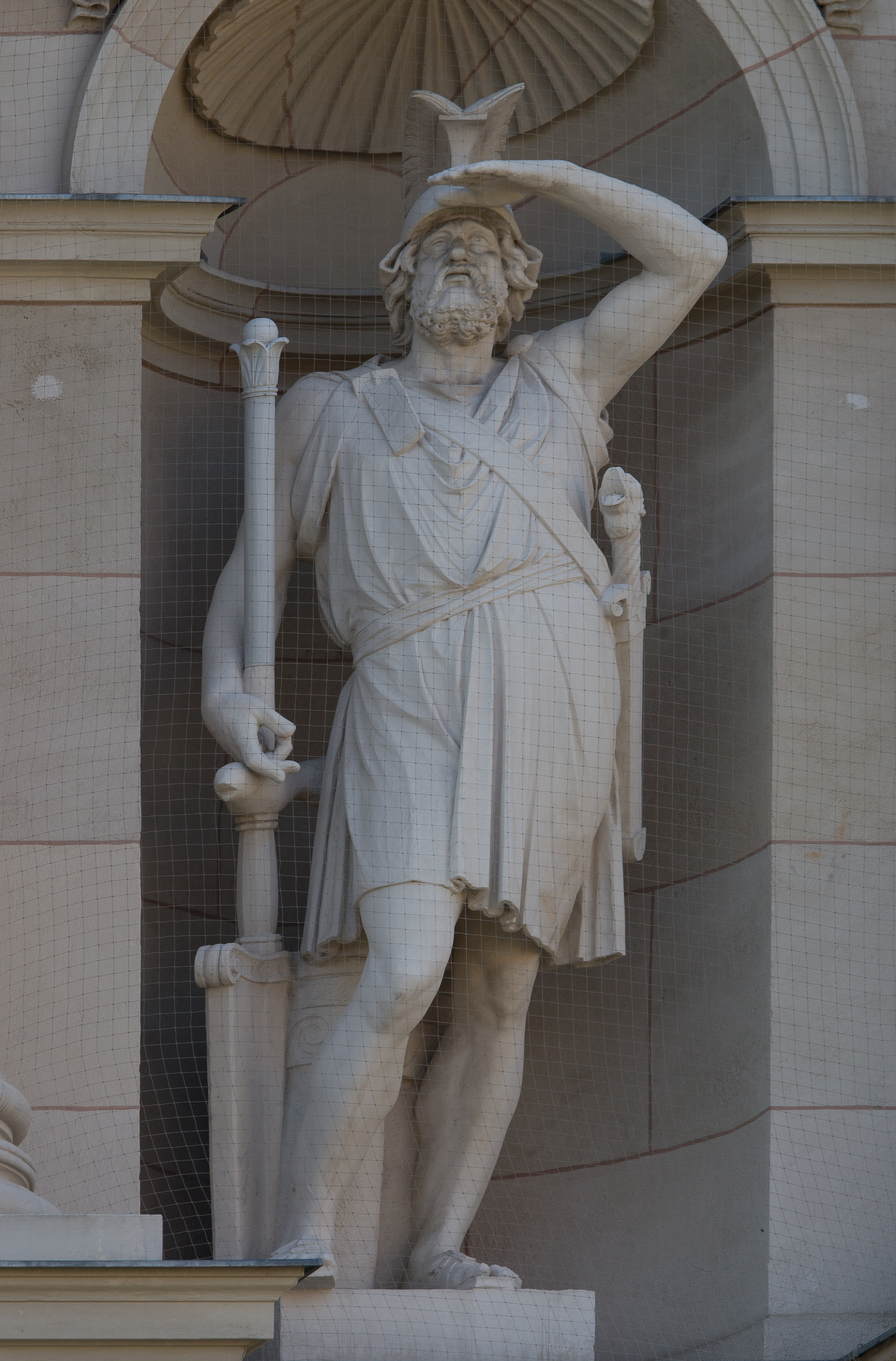 Figures Naturhistorisches Museum in Vienna, Austria